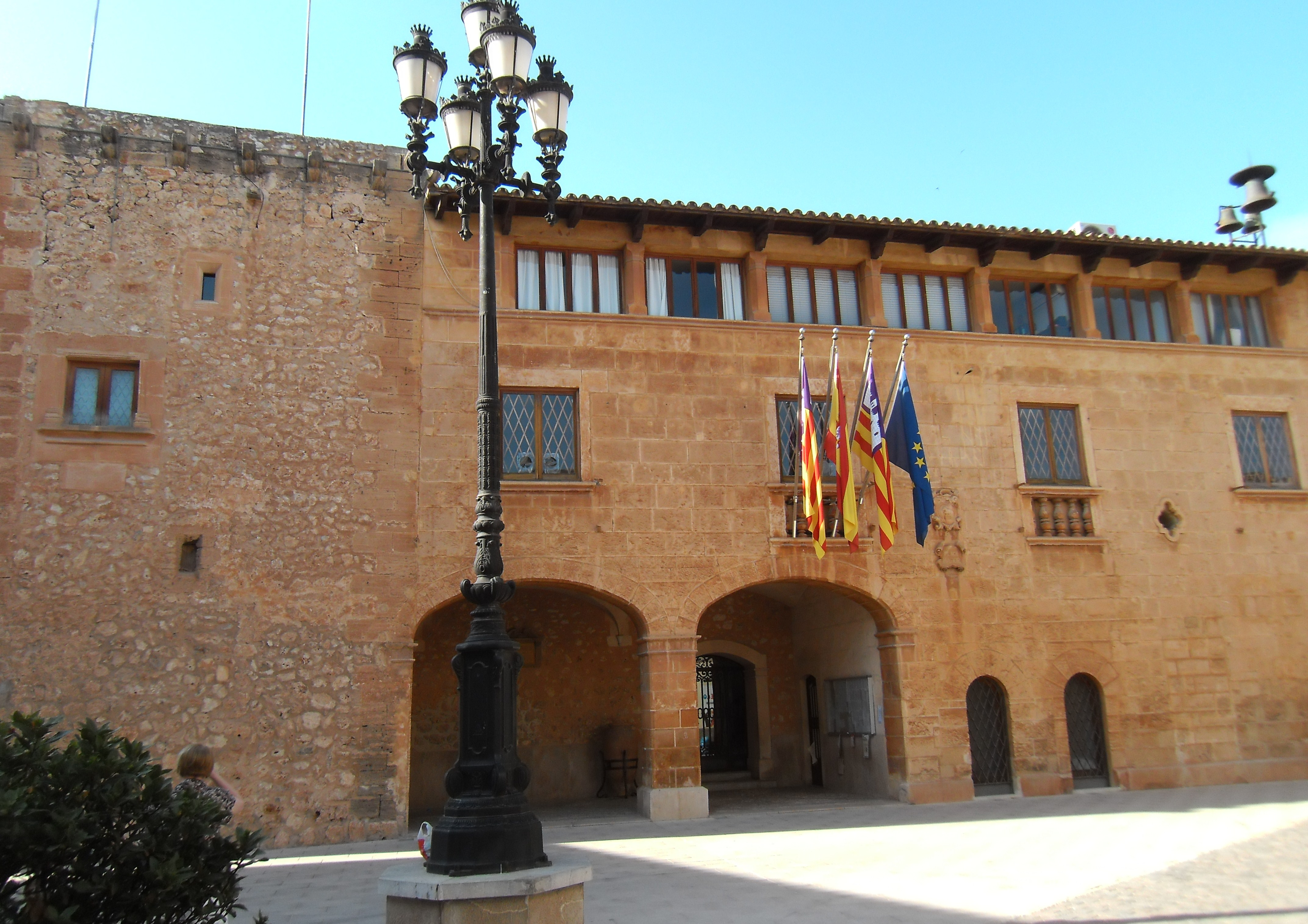 Town Hall of Campos, Mallorca